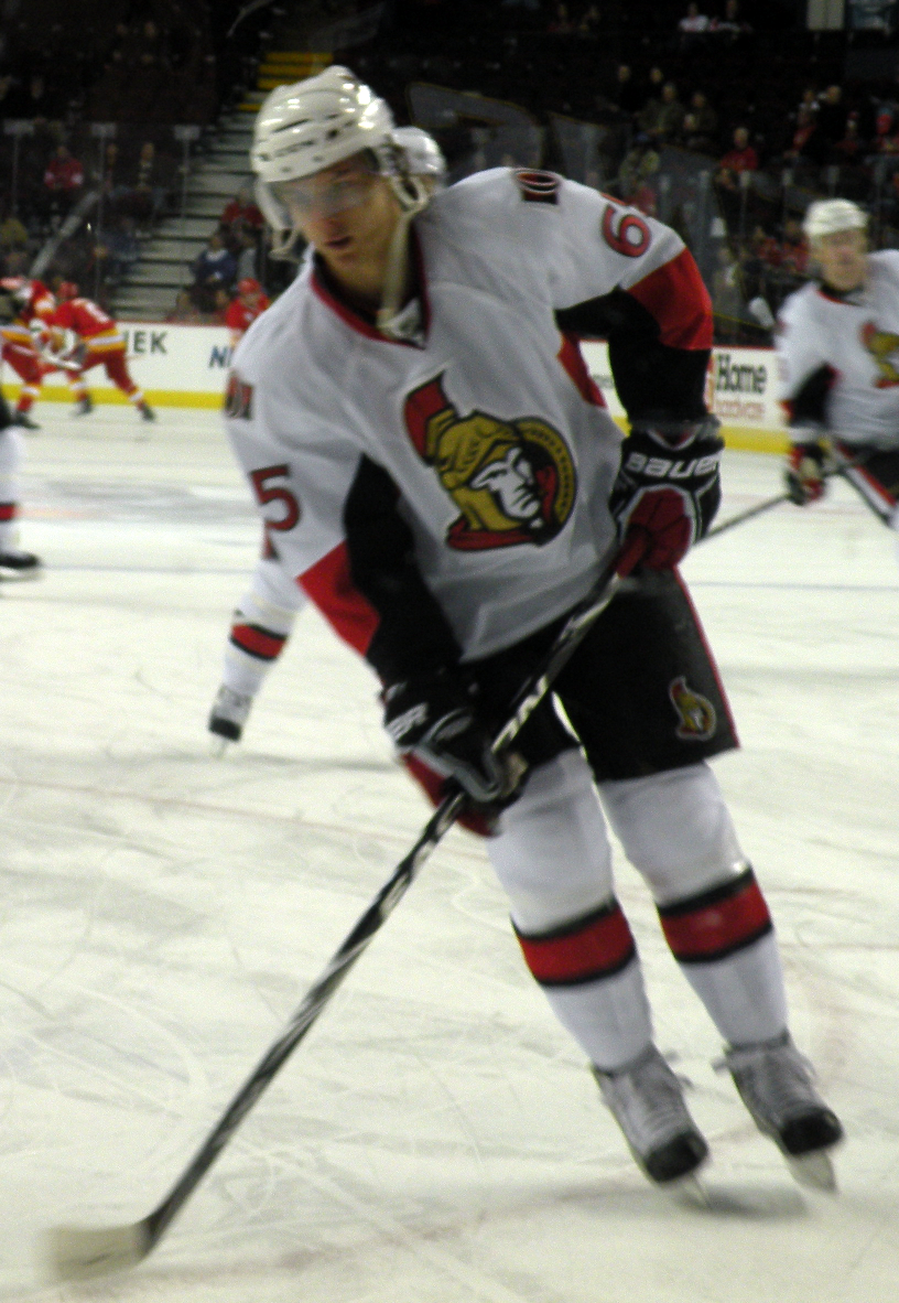 Ottawa Senators defenceman Erik Karlsson prior to a National Hockey League game against the Calgary Flames.